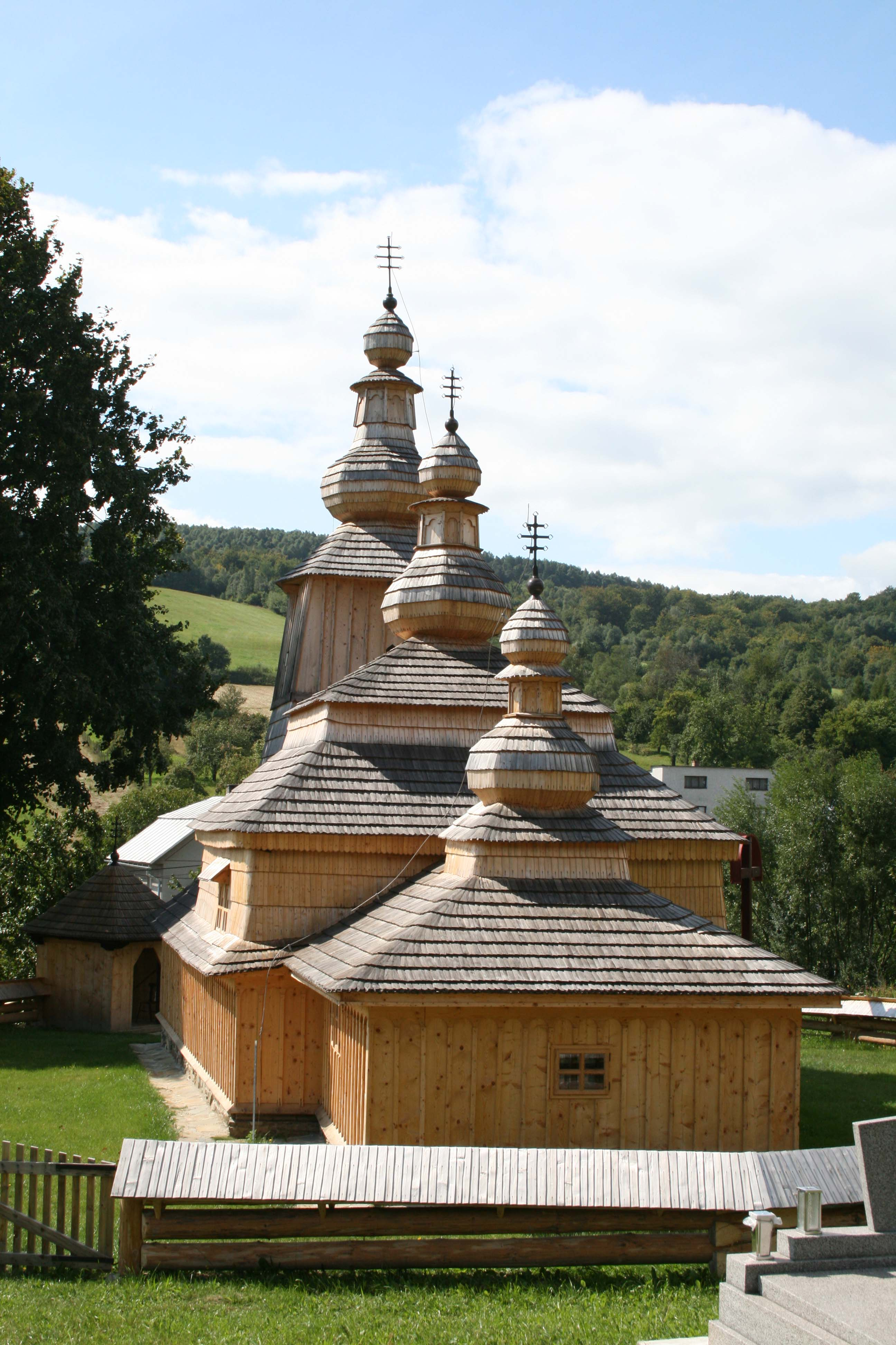 Mirola, Greek-Catholic Church.